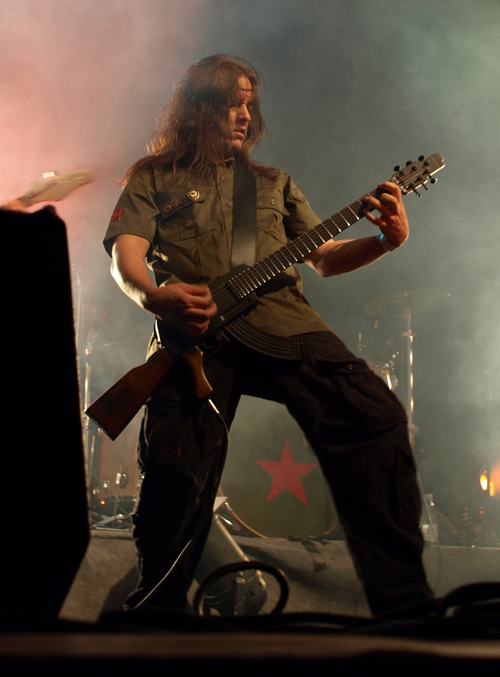 Finnish doom metal band KYPCK live at Jalometalli 2008 in Oulu.